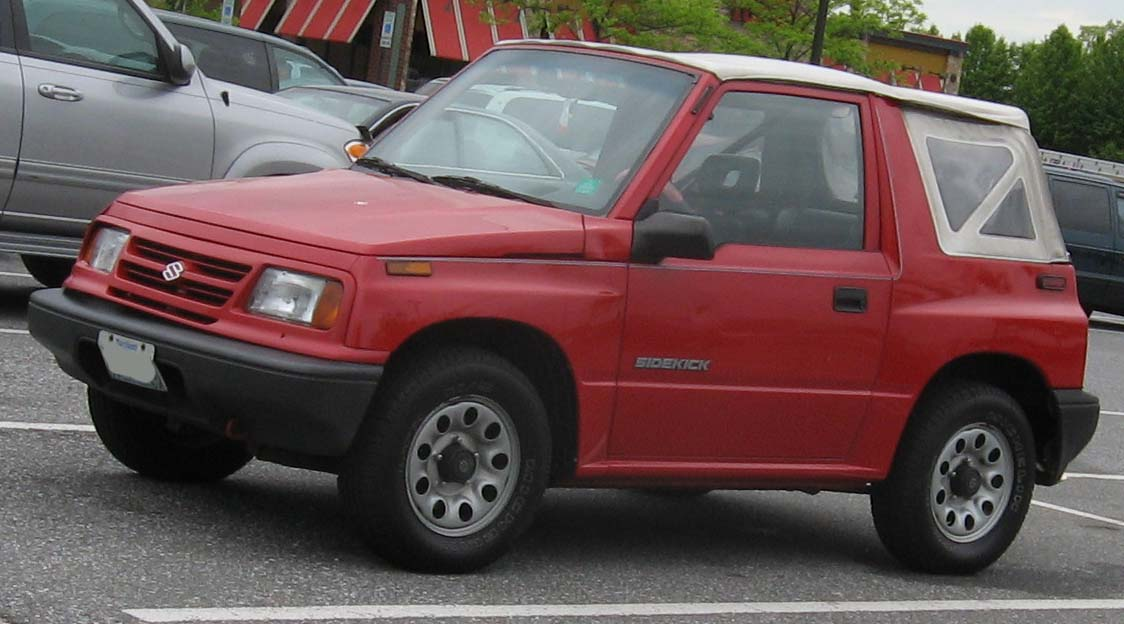 Suzuki Sidekick photographed in USA.